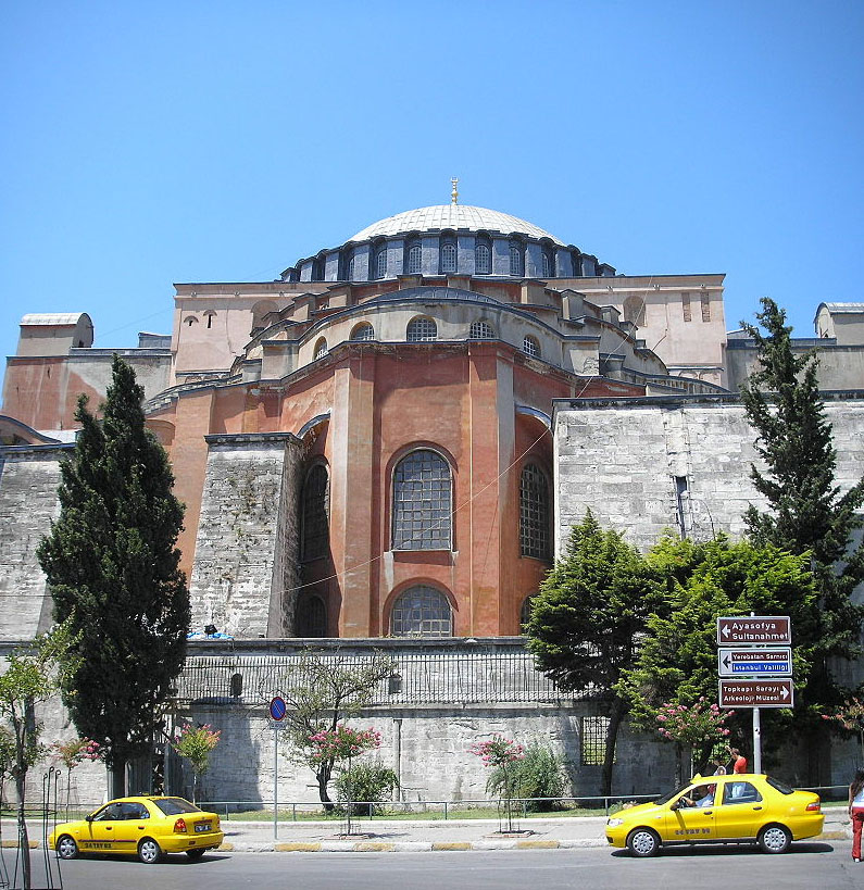 The exterior of Hagia Sophia from the backside, next to Topkapi Palace.